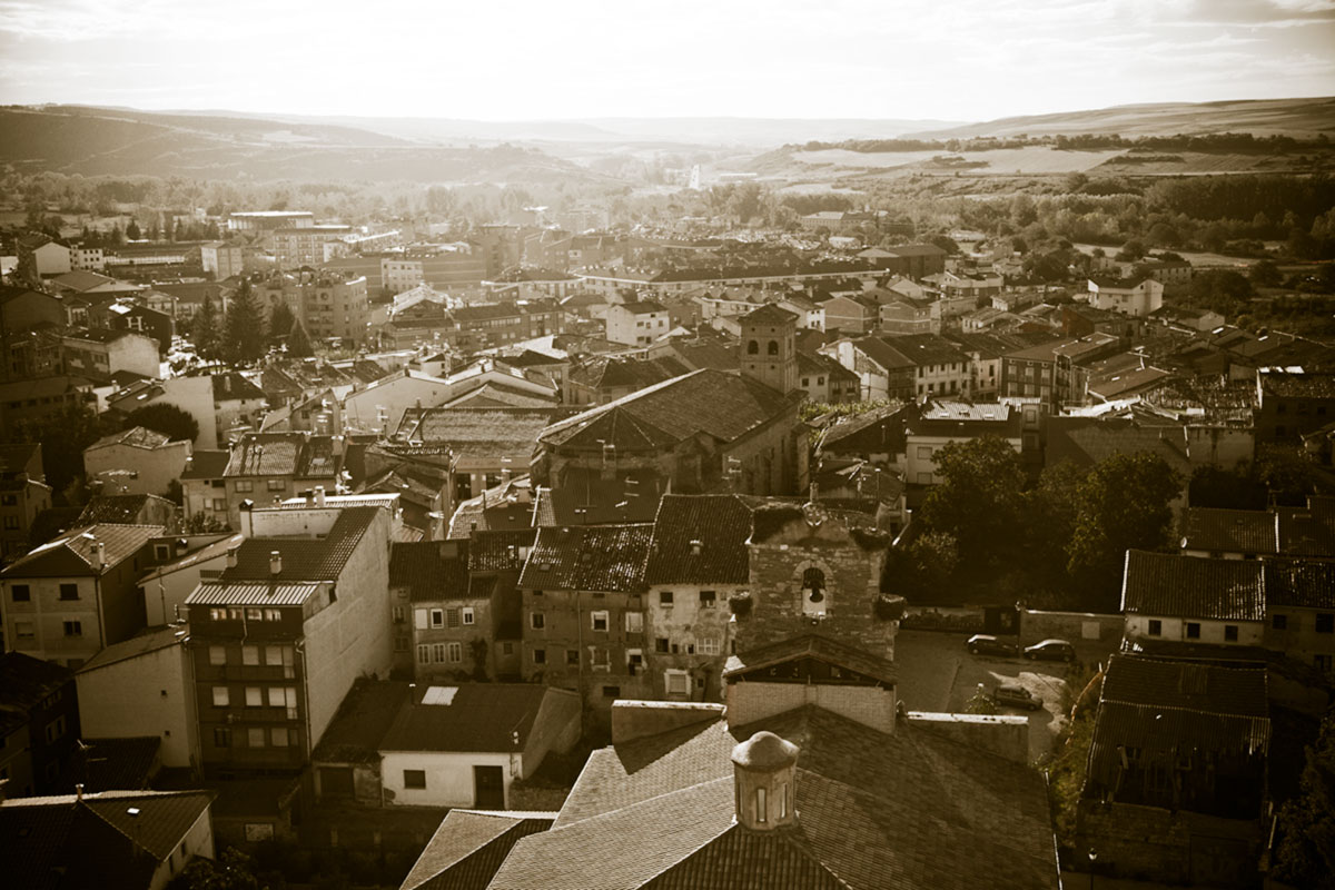 View of Belorado in sepia from its castle